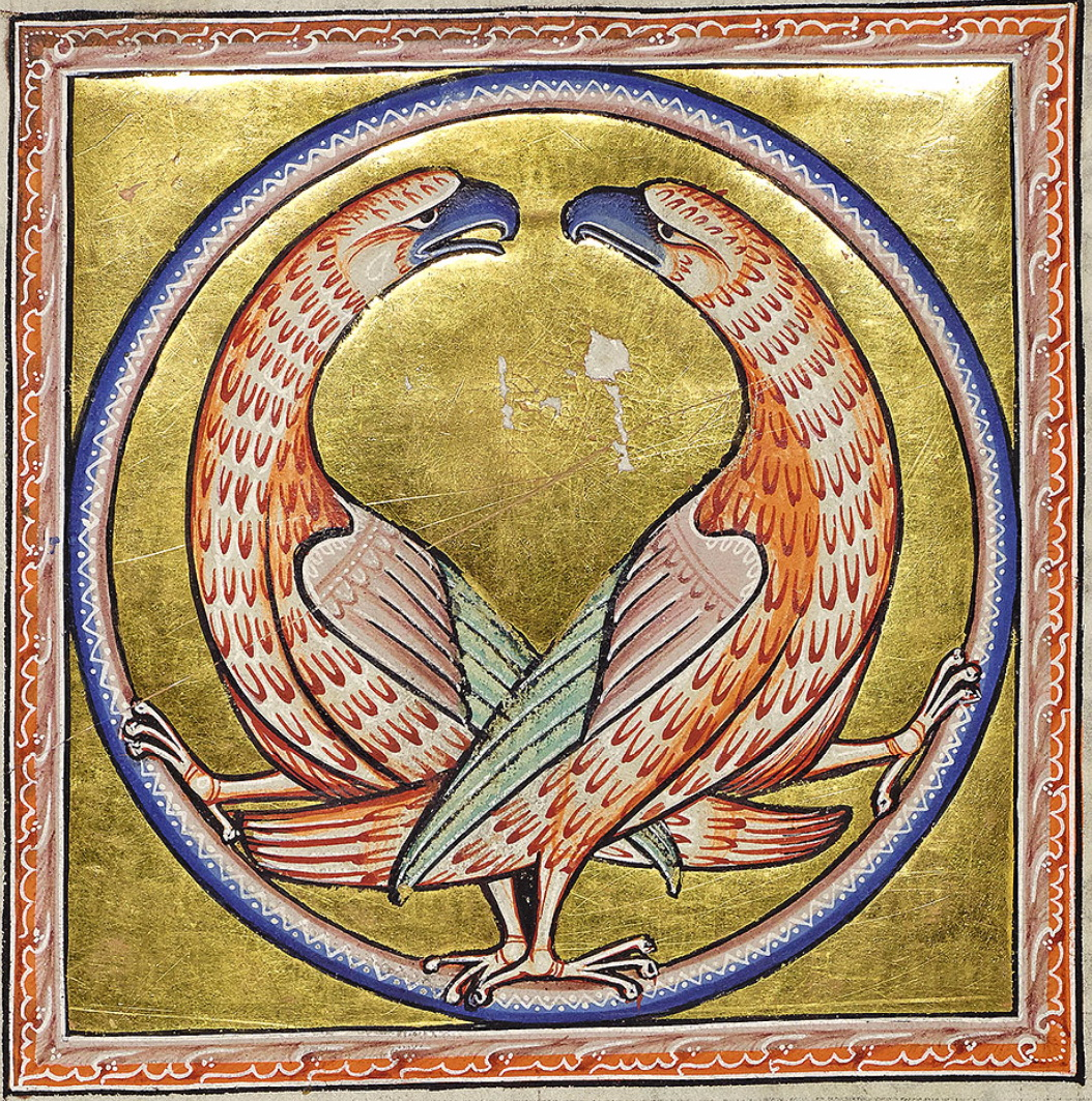 Miniature of the Vulture in The Aberdeen Bestiary